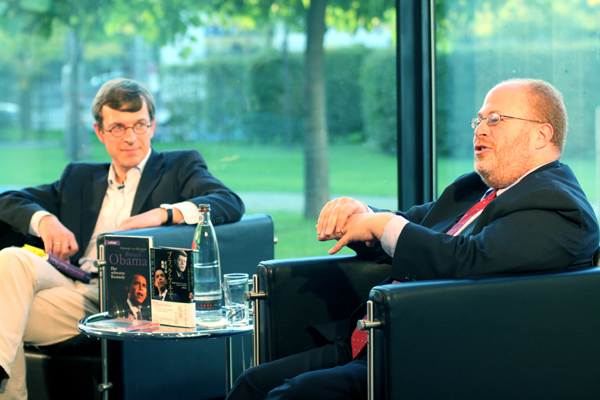 Photograph from a debate organised by the US diplomatic mission in Germany surrounding the 2008 US Presidential elections. Pictured are two of the panellists, German journalist Christoph von Marschall (left) and American economist Adam Posen (right).